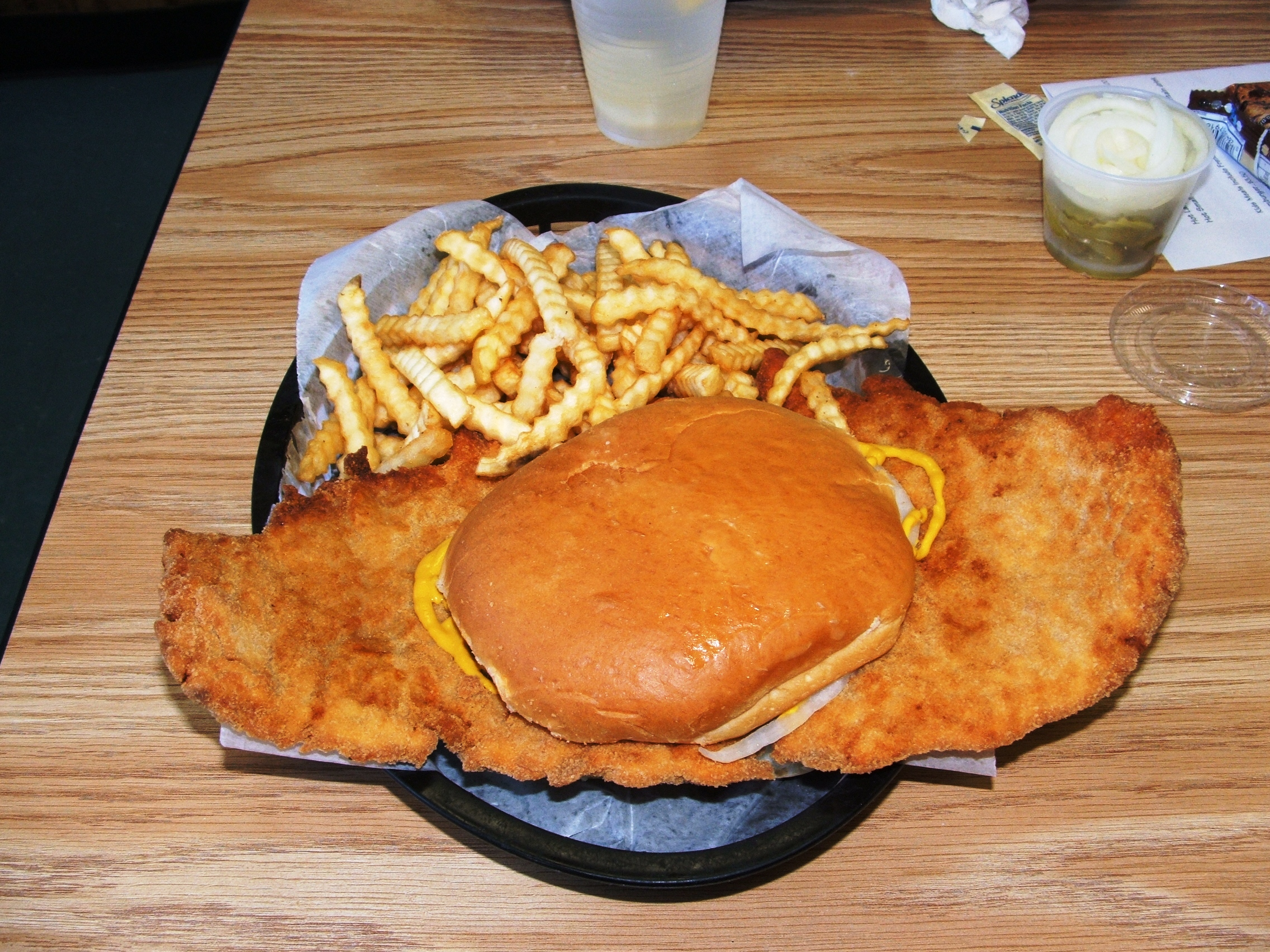 Pork tenderloin sandwich - Joensy's Restaurant, Solon, Iowa, USA